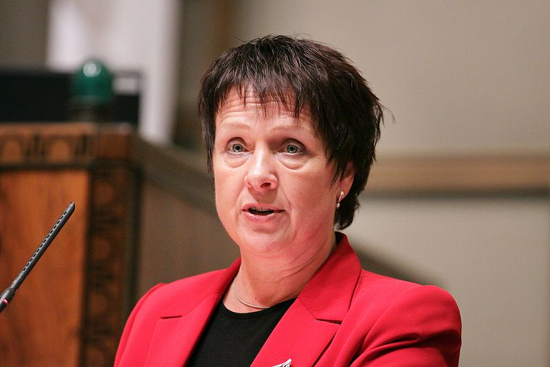 Viveka Eriksson, Premier of the Government of Åland in Helsinki